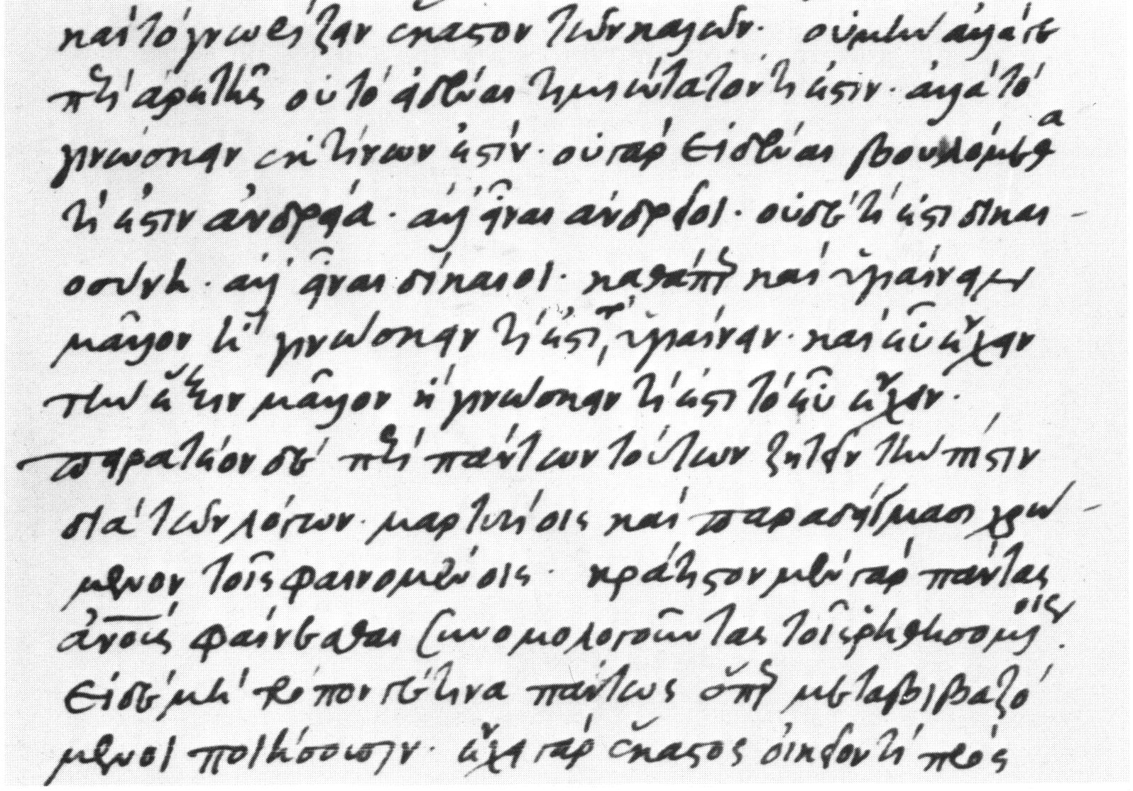 A text written by Constantine Lascaris: Madrid, Biblioteca Nacional, 4627, fol. 5r.